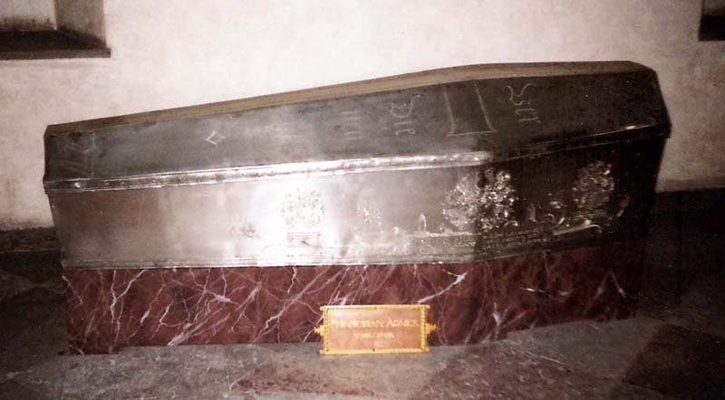 The grave of Princess Agnes of Holstein-Gottorp (1578-1627), maternal aunt of King Gustav II Adolph, as displayed on the ground floor of the Gustavian Chapel at Riddarholm ChurchPlace: Stockholm, Sweden